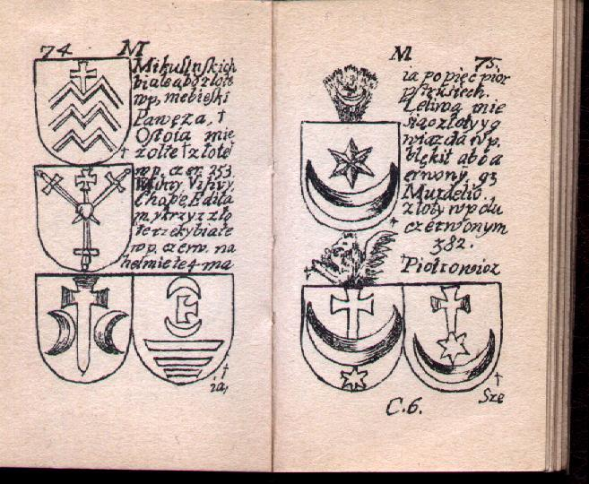 Ostoja according to Antoni Swach